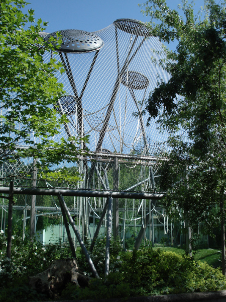 Hellabrunn Zoo Orang-Utan Large Outdoor Enclosure - in collaboration with Mayr + Ludescher Engineers